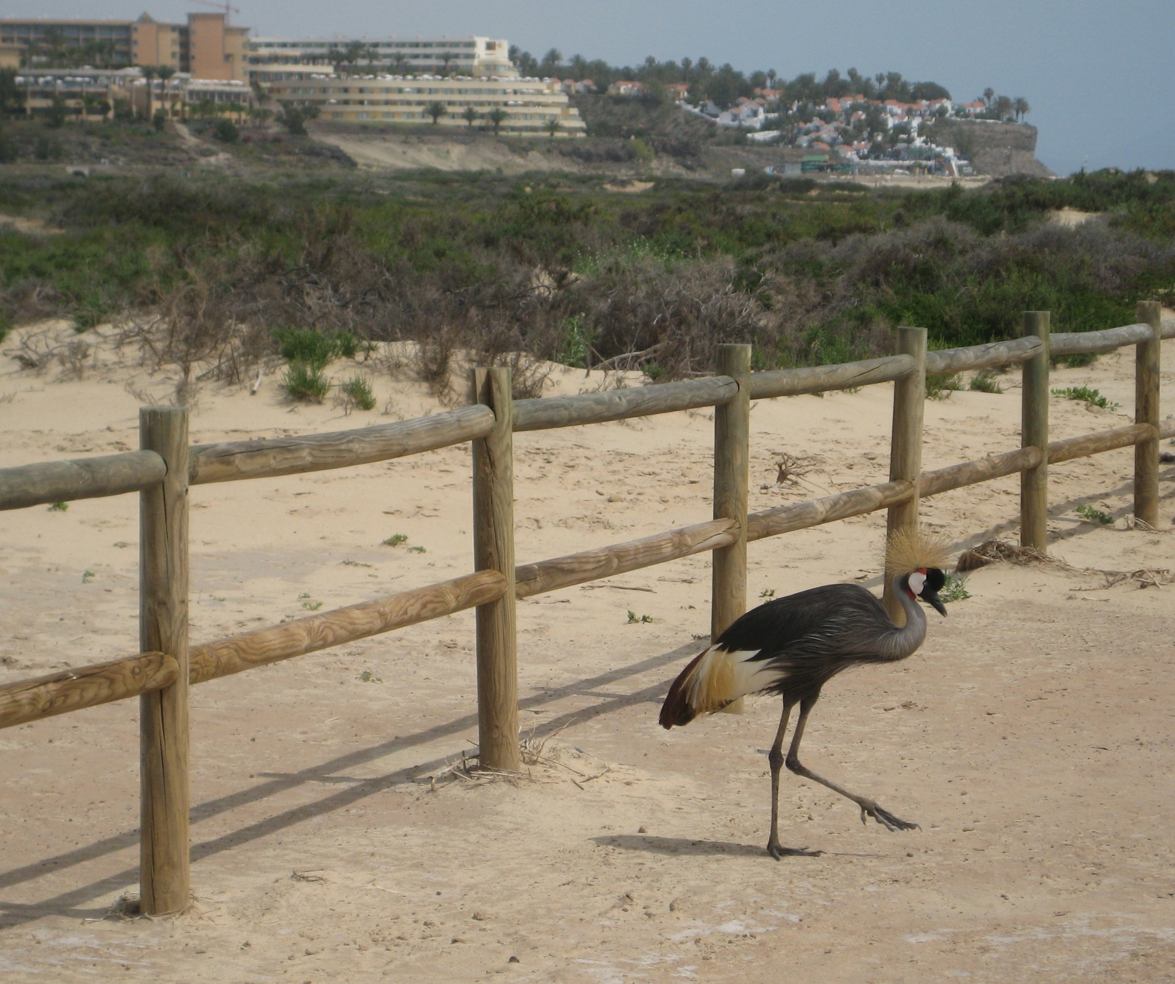 A crowned crane steps out of of the tidal marsh into the beach, in Playa del Matorral, Jandía, Pájara, Fuertenventura.